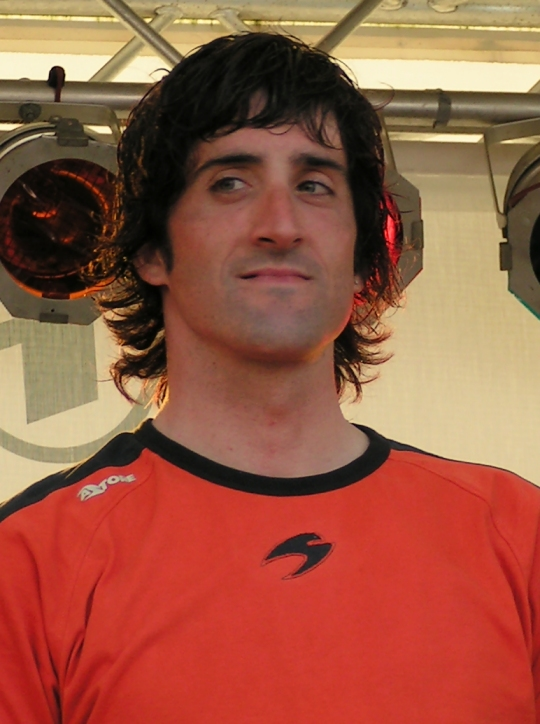 The Spanish racing cyclist Iker Flores at the team presentation for the Deutschland Tour 2006 in Düsseldorf, Germany.